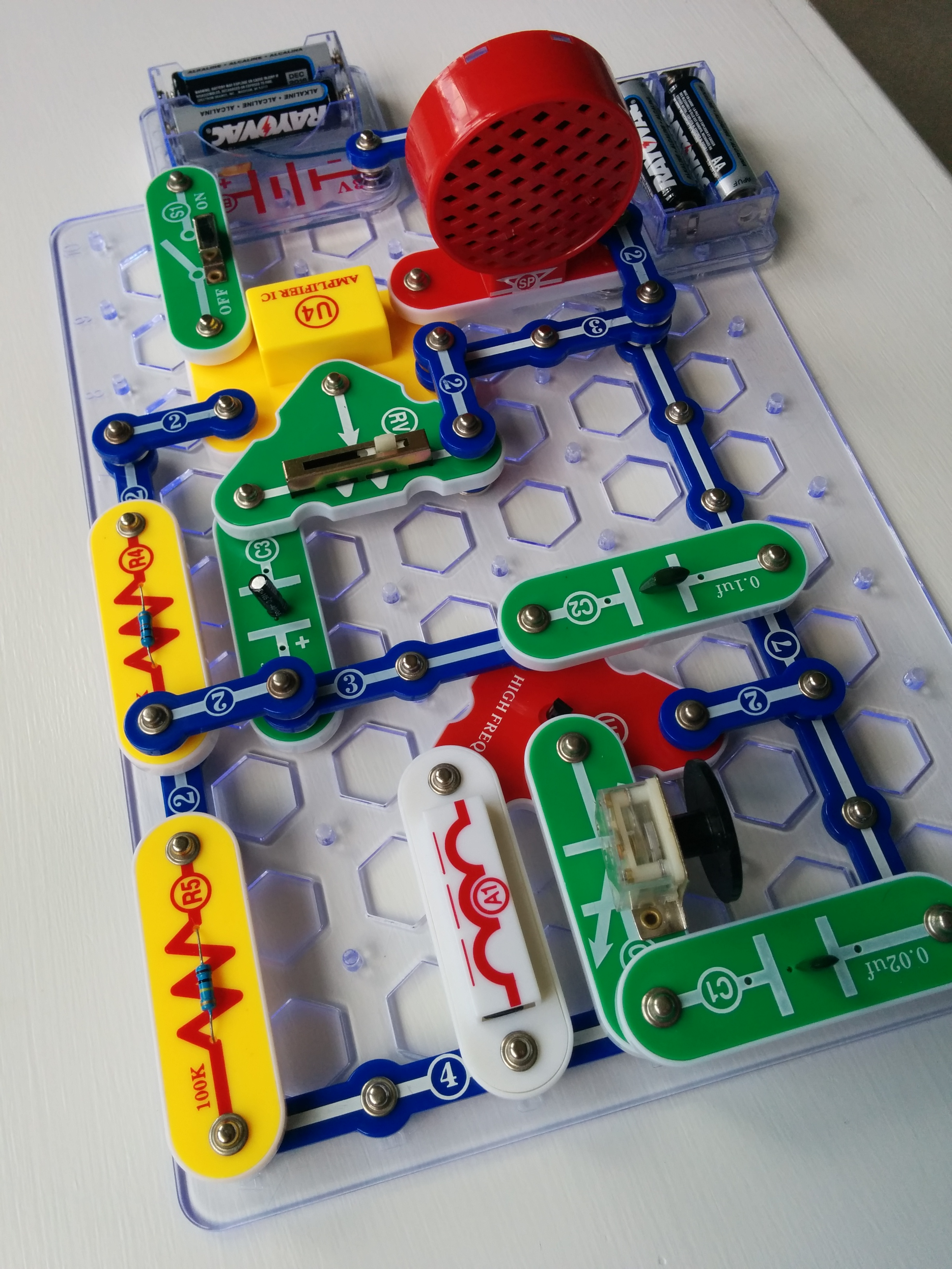 A circuit of an AM radio using a Snap Circuits kit.